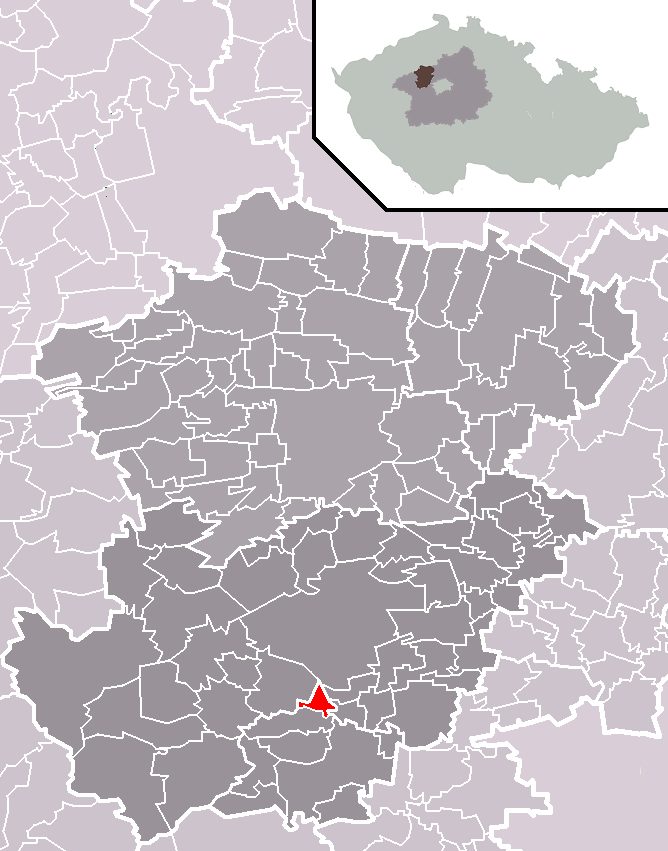 Location of Pletený Újezd municipality within Kladno District and administrative area of Kladno as a Municipality with Extended Competence.